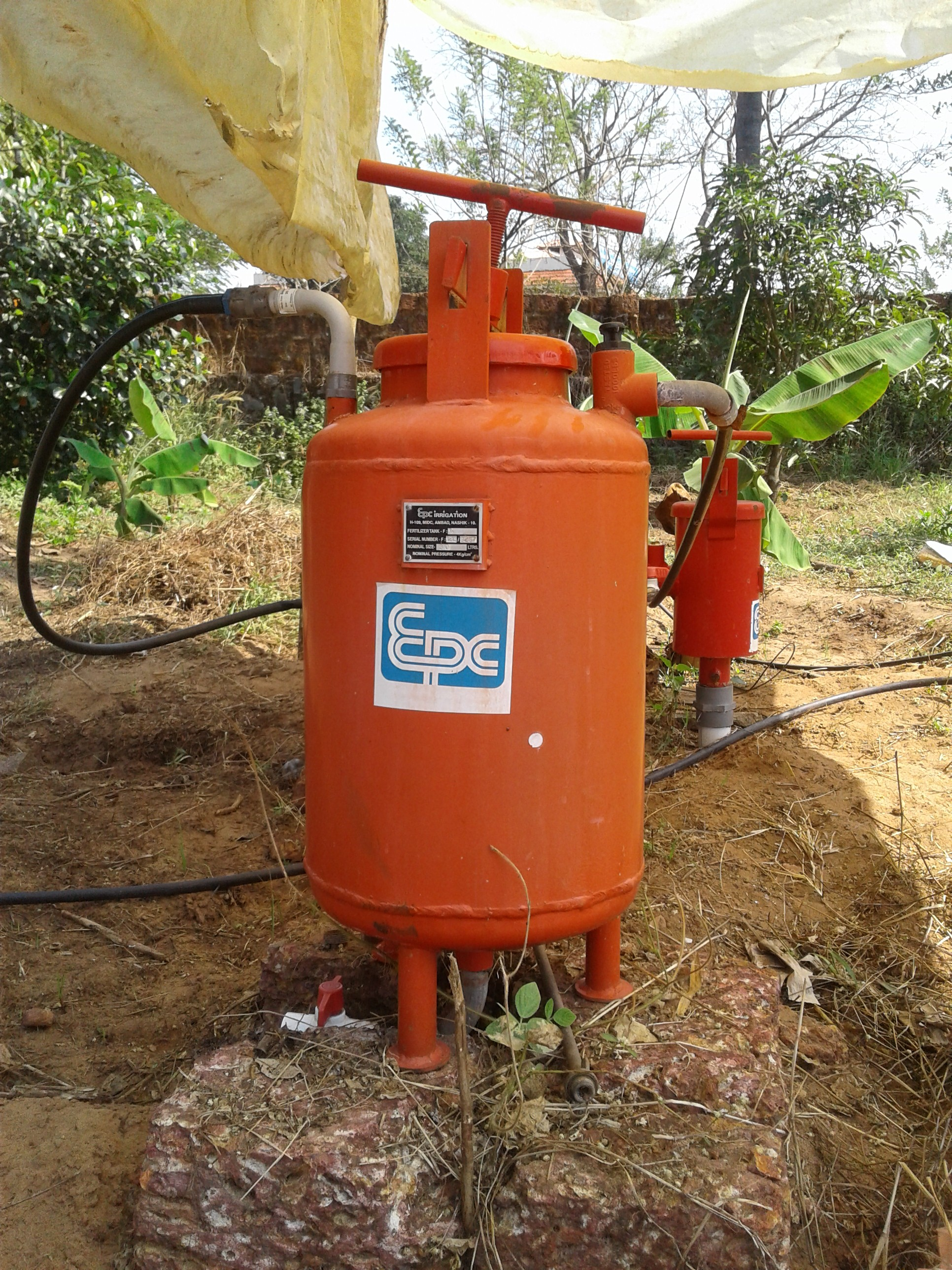 It is the tank used for fertigation purpose